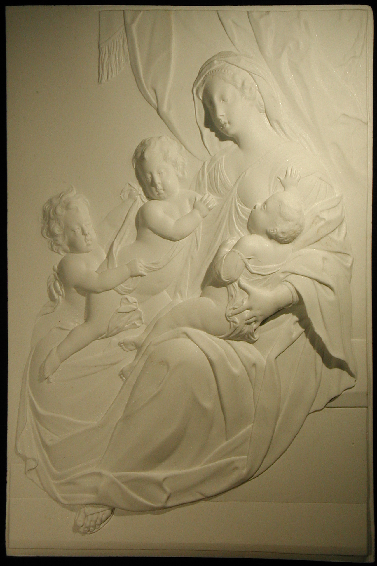 Plaster mold of the allegory of the virtue Caritas (love), attributed to the French sculptor David Le Marchand (1674-1726) graved on ivory and kept in Kestner Museum in Hanover.